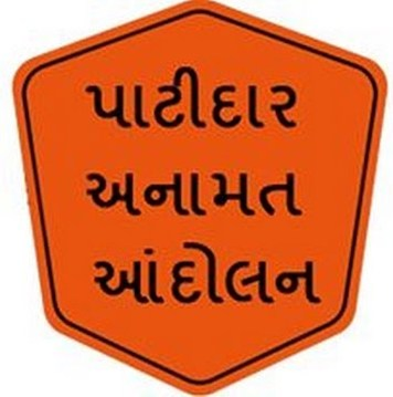 Patidar